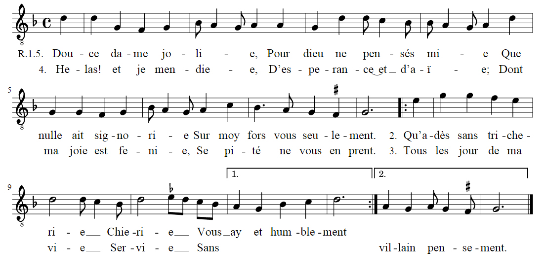 "Douce Dame Jolie", 1-part Virelai by 14th-century composer and poet Guillame de Machaut. After an edition in Timothy Roden, Craig Wright, Bryan Simms, Anthology for Music in Western Civilization, vol. 1, p.103.